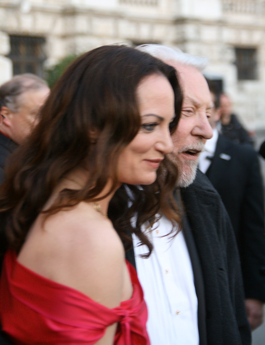 Natalia Wörner and Donald Sutherland at the Romy TV awards (Hofburg Imperial Palace in Vienna)